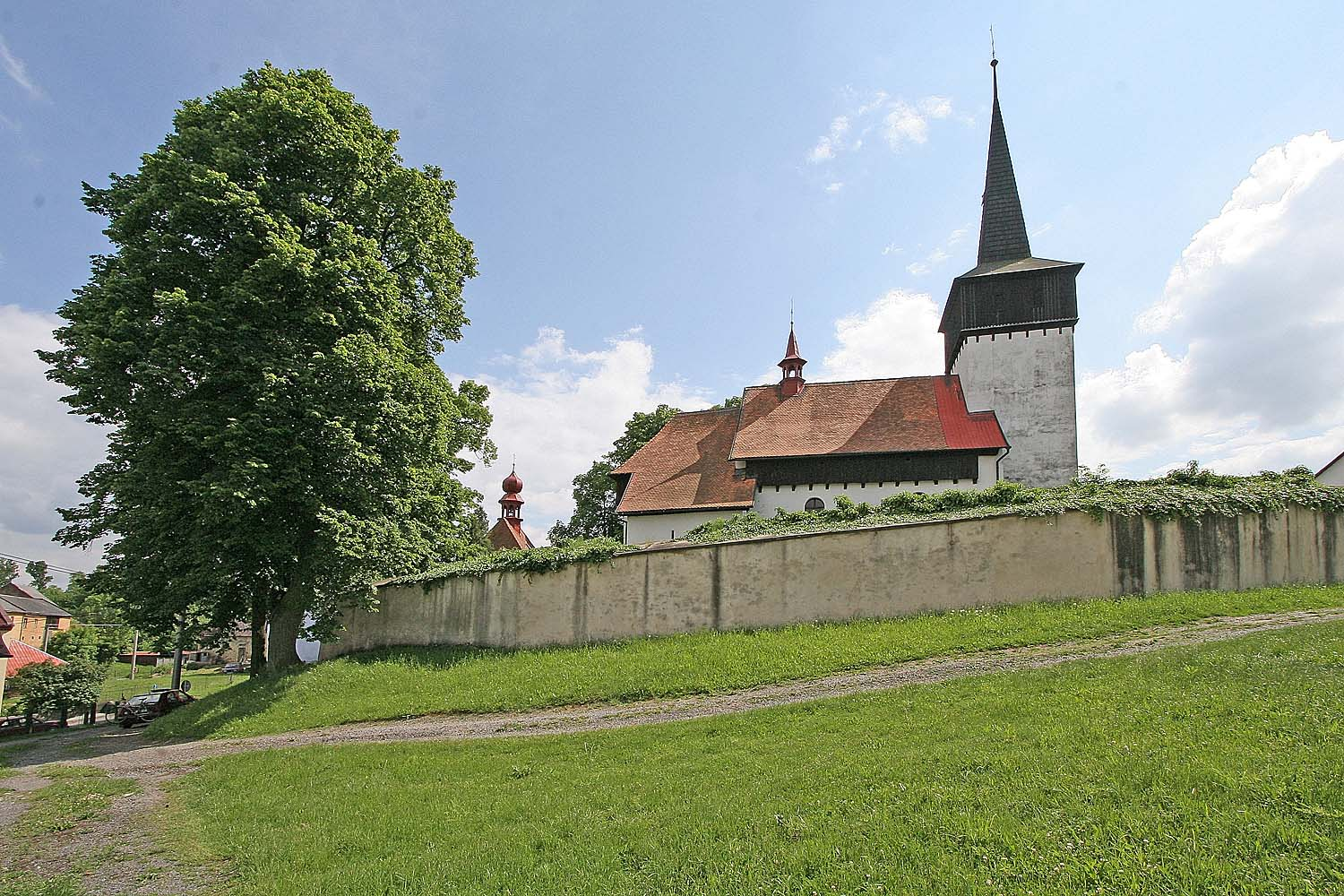 Gothic church of Saint Barbara in Banín, Svitavy District, Czech Republic.